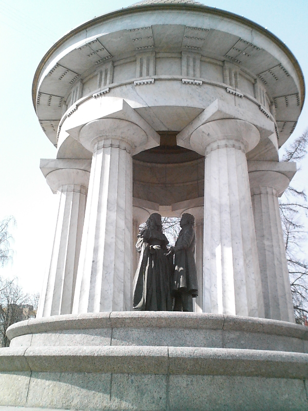 Moscow Nikitskaya Square, Fountain with sculptures of Pushkin and Goncharova